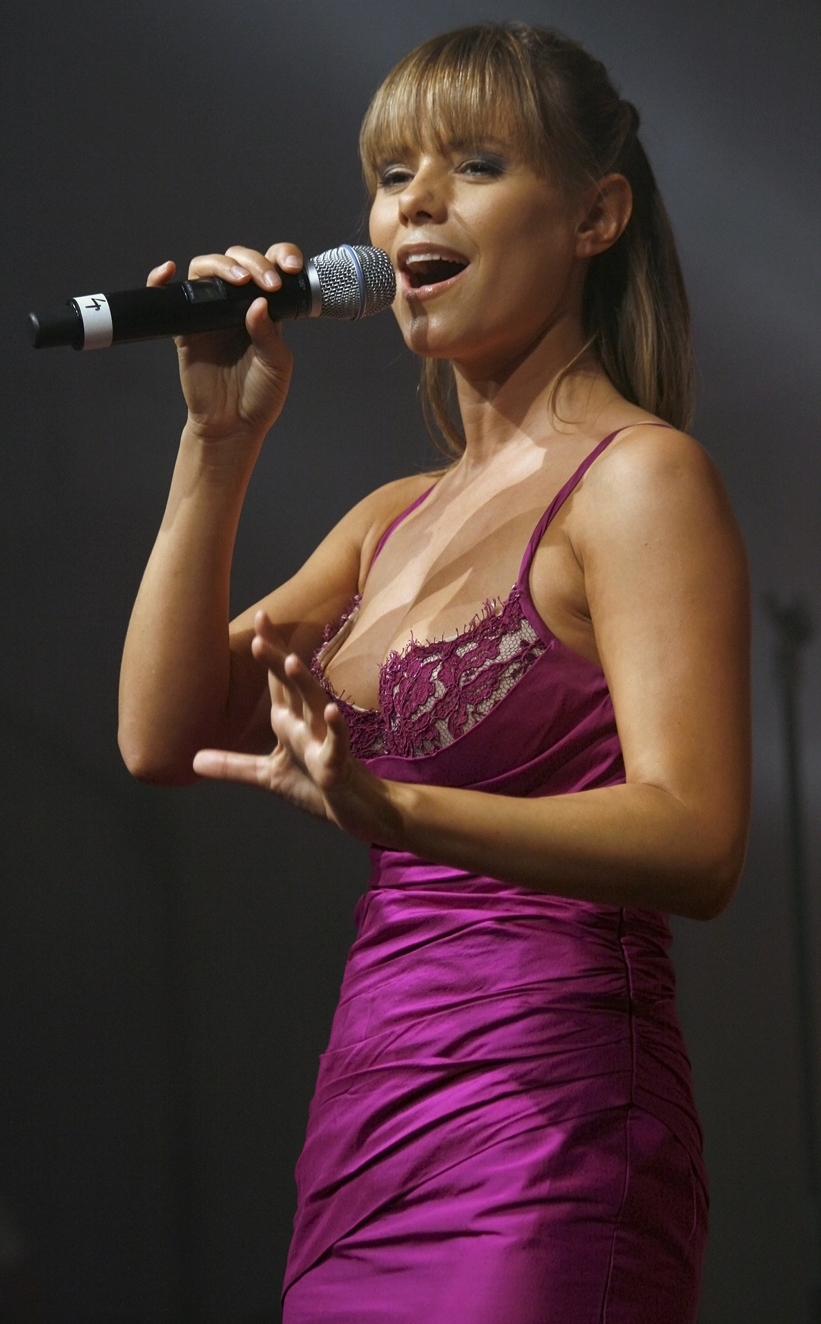 Swiss singer Francine Jordi (concert in Vienna).